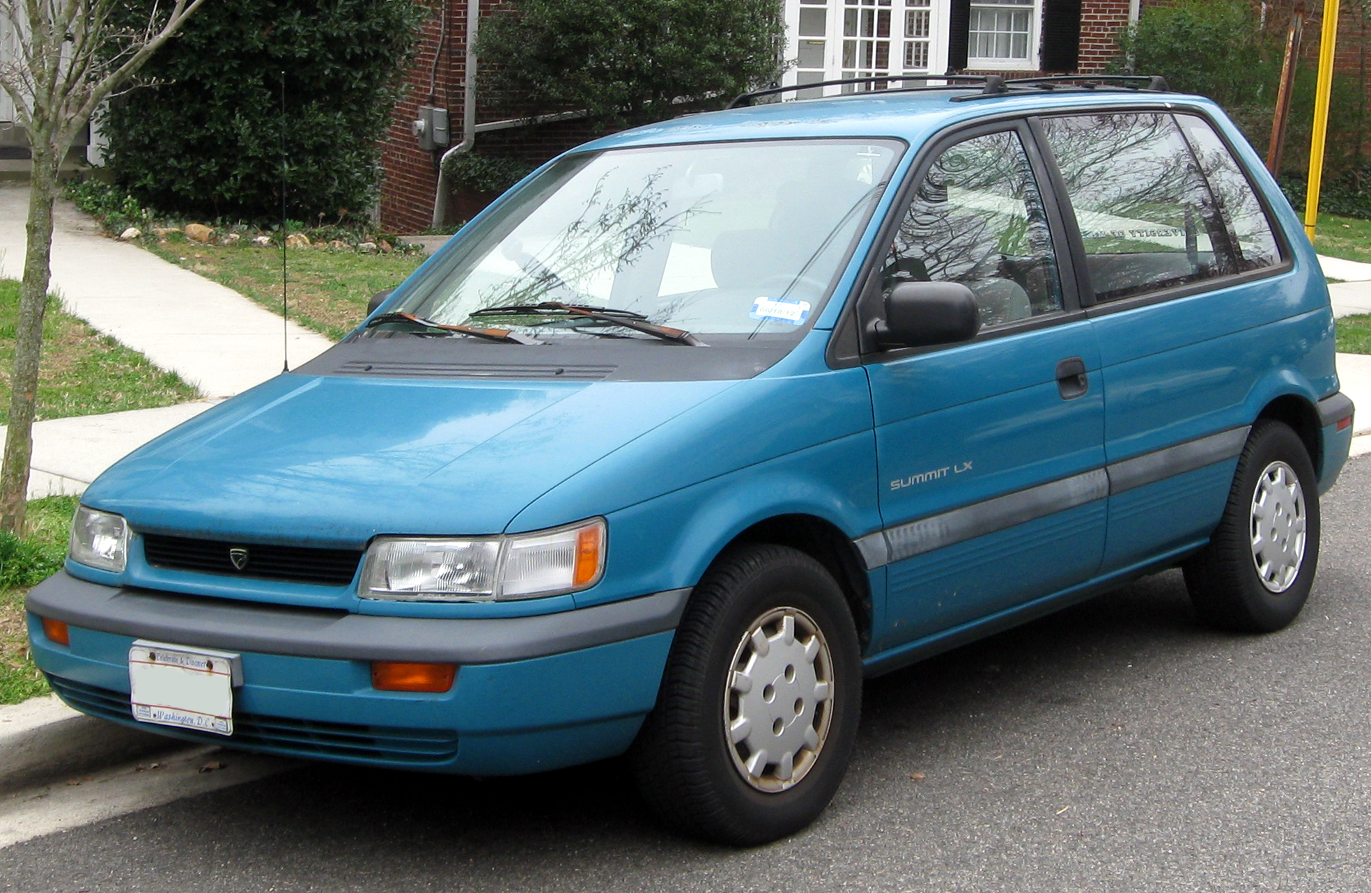 Eagle Summit photographed in Washington, D.C., USA.